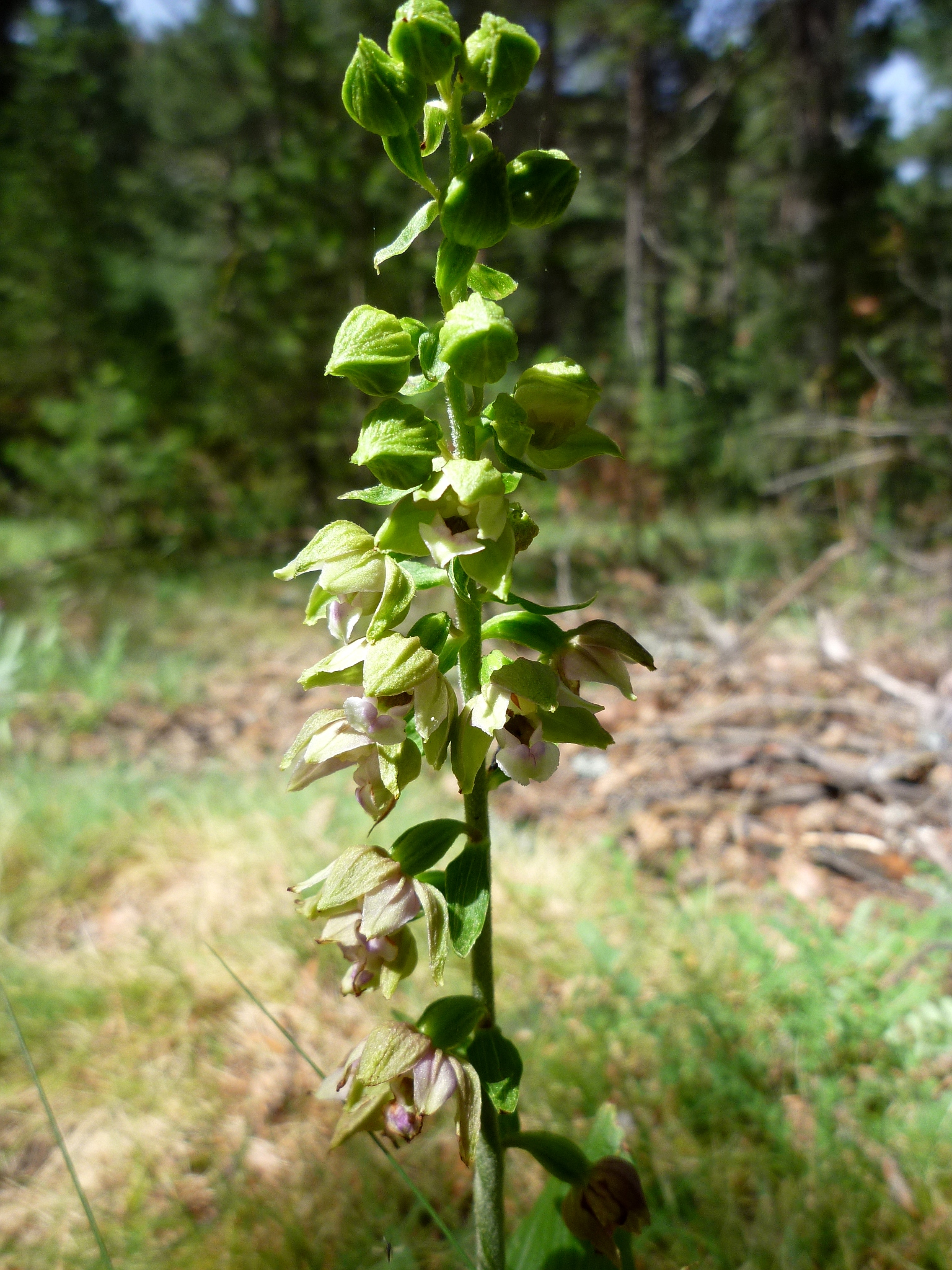 Epipactis helleborine. In la Bòfia, Tuixén (Alt Urgell - Catalunya). To 1.590 m. altitude